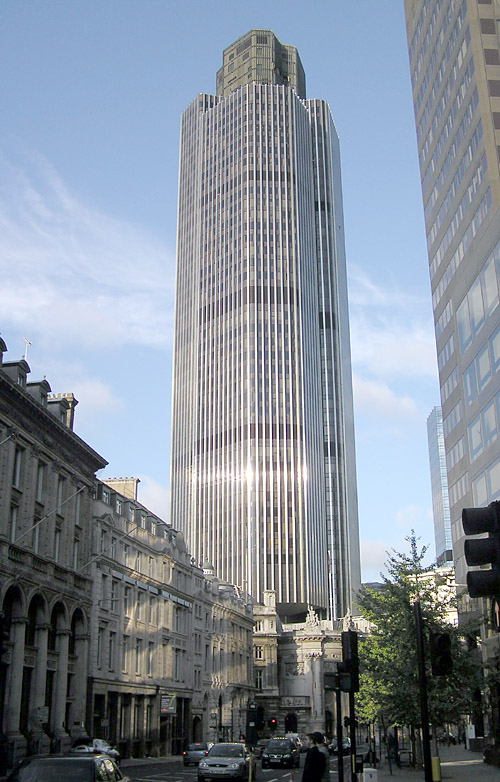 Tower 42 at 25 Old Broad Street, London. Formerly known as the NatWest Tower. Taken by Adrian Pingstone in November 2004 and released to the public domain.